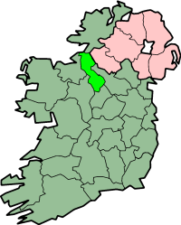 County Leitrim (Ireland). 11:53, 21 February 2004 Morwen 200x249 (30642 bytes)